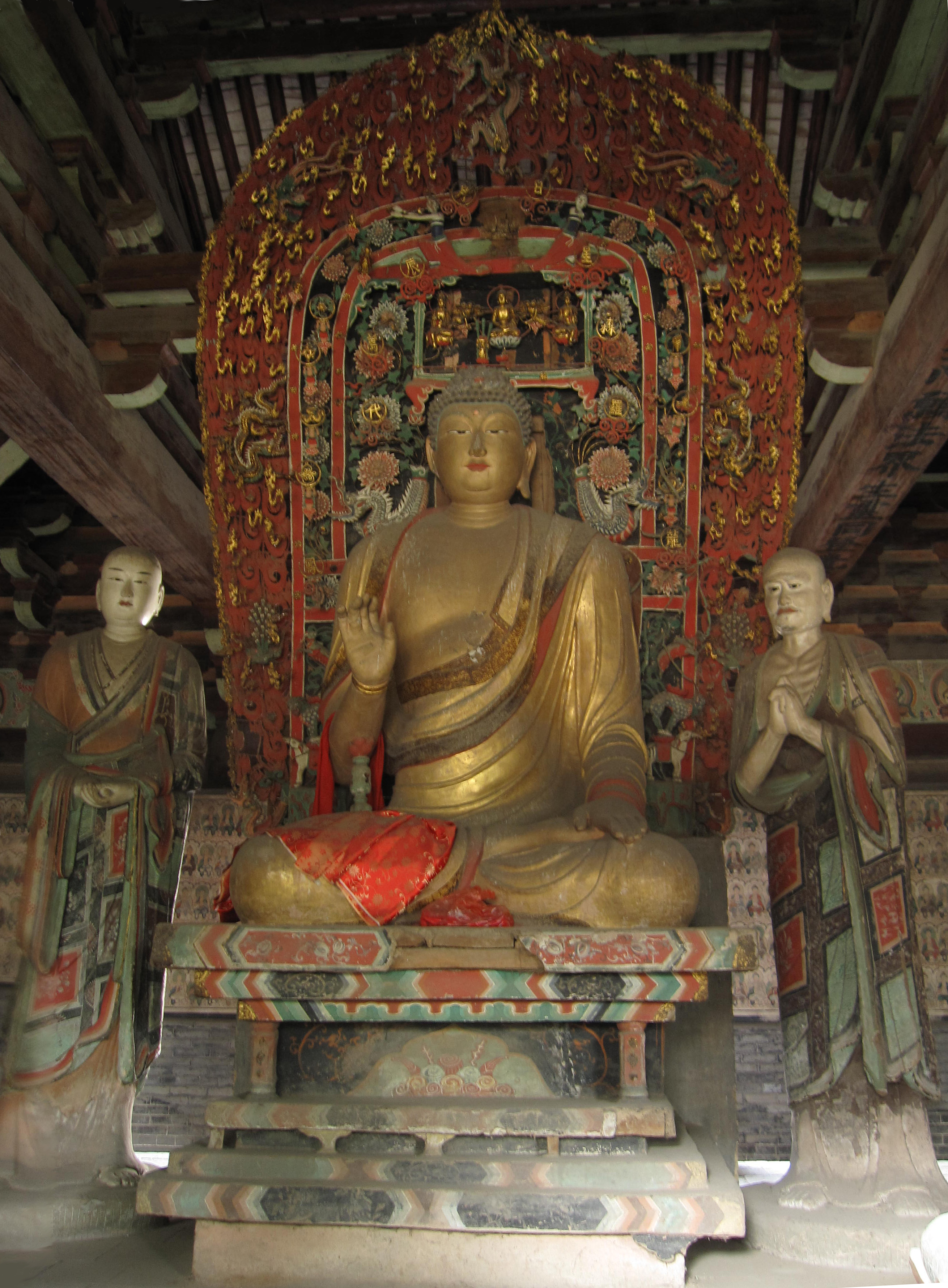 The interior of the Wanfo Hall at Zhenguo temple